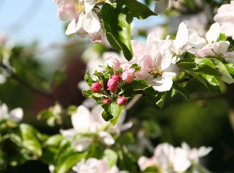 Blossom on a Cox's Orange Pippin tree